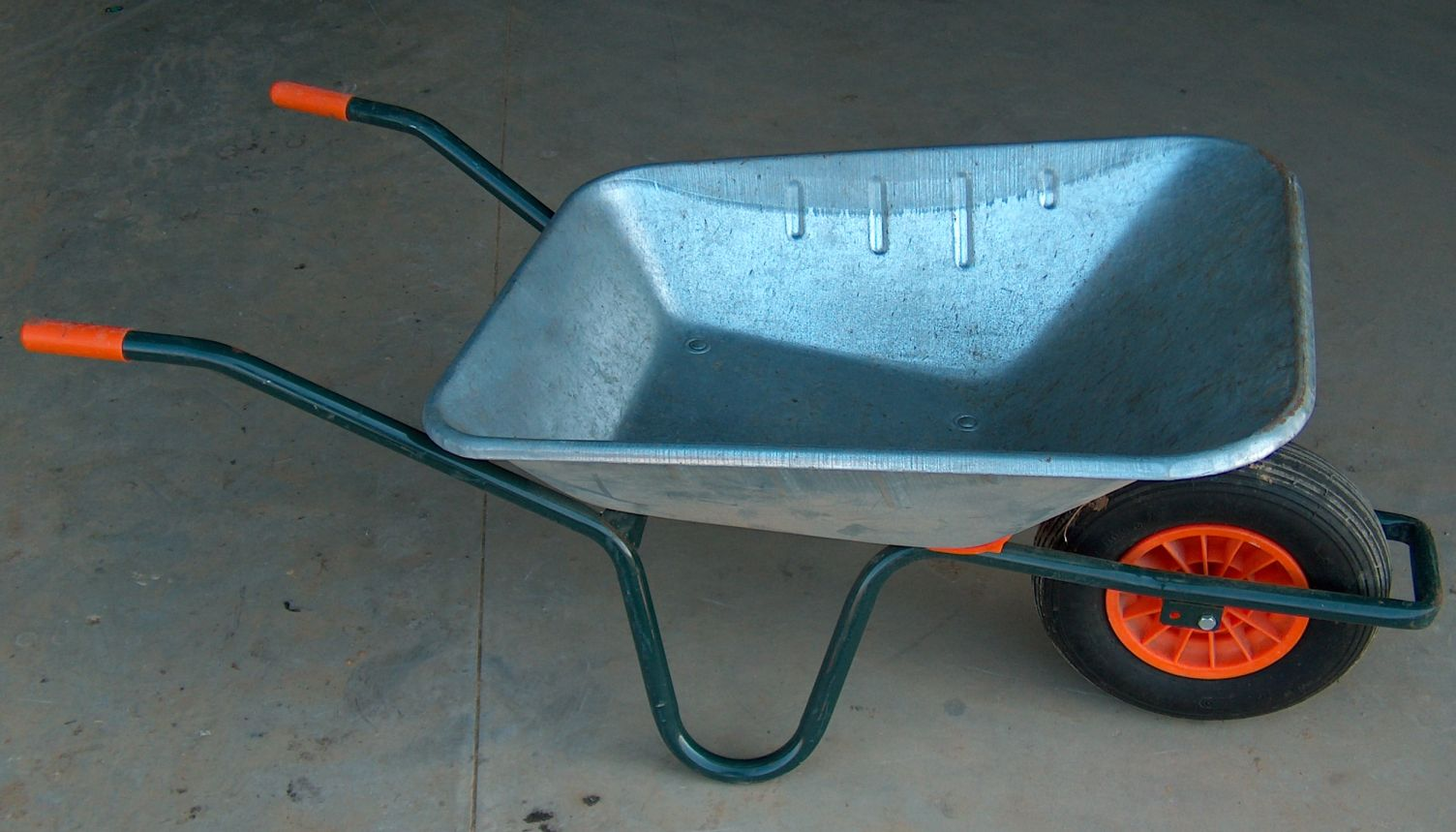 Modern wheel barrow